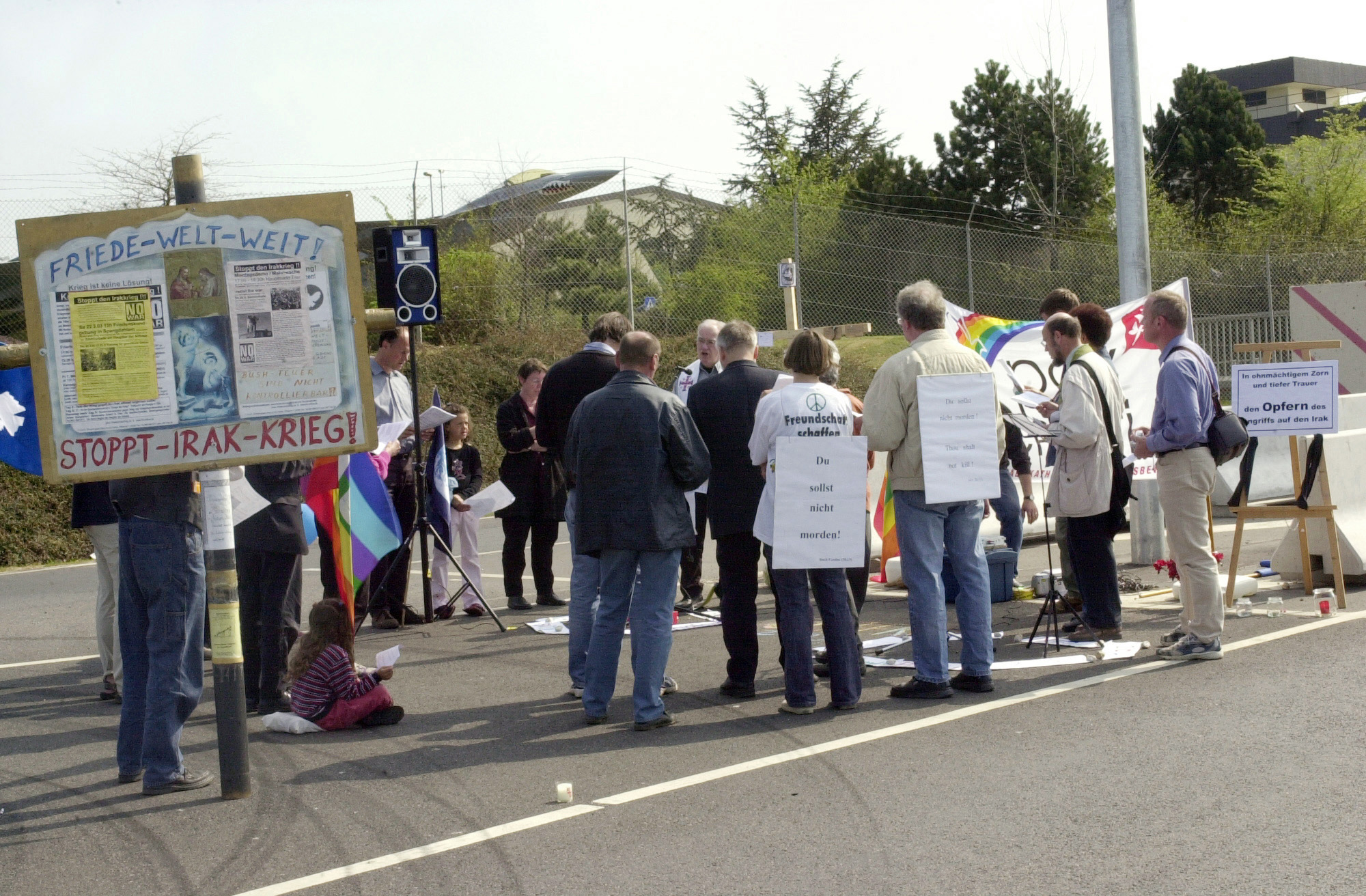 German members of PAX Christi, an international religious group working for peace and friendship among all nations, protest the war in Iraq outside the main gate of Spangdahlem Air Base (AB), Germany, on the first day Operation IRAQI FREEDOM.